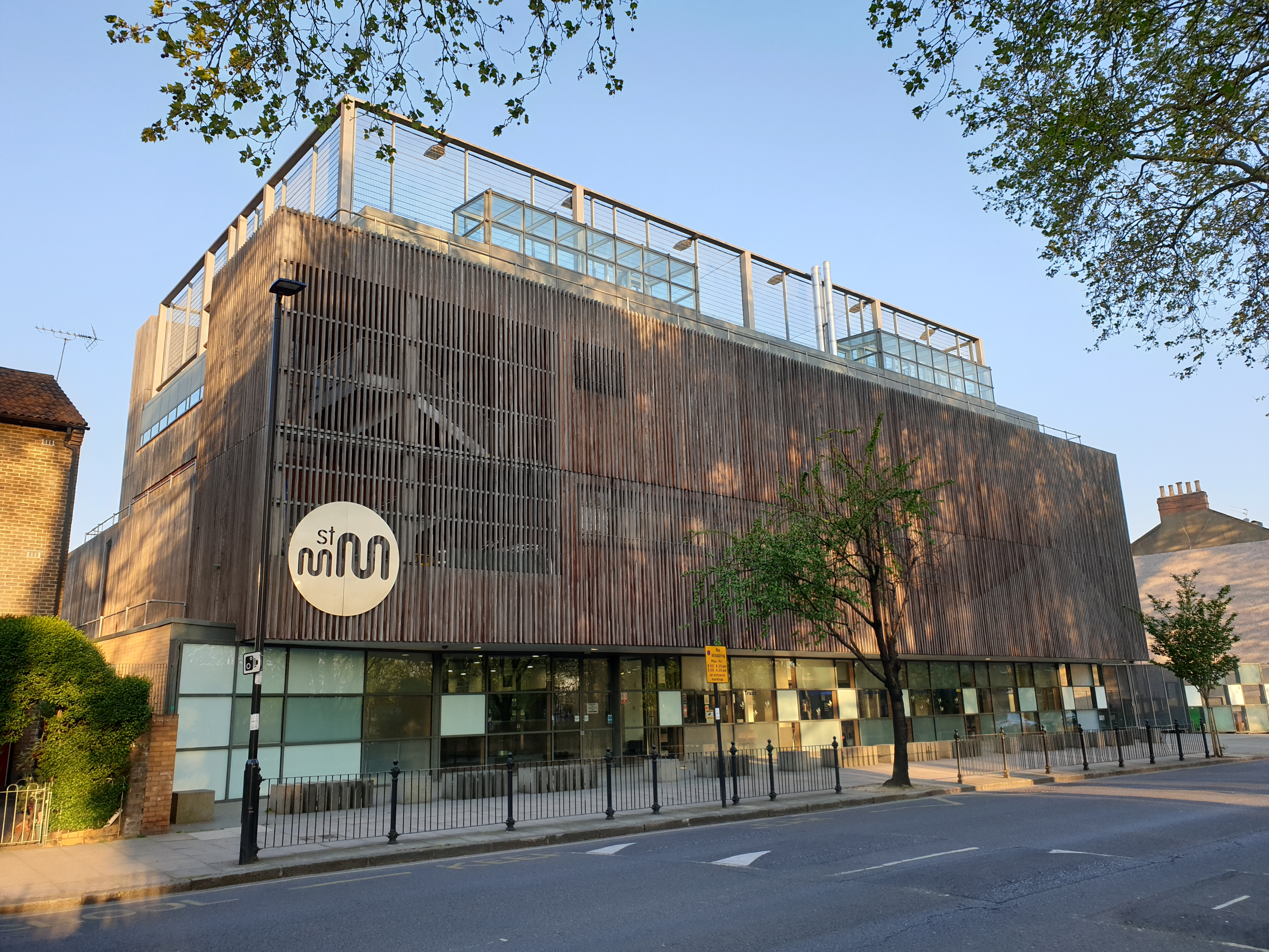 St Mary Magdalene Academy, Liverpool Road, Islington, London - April 2020